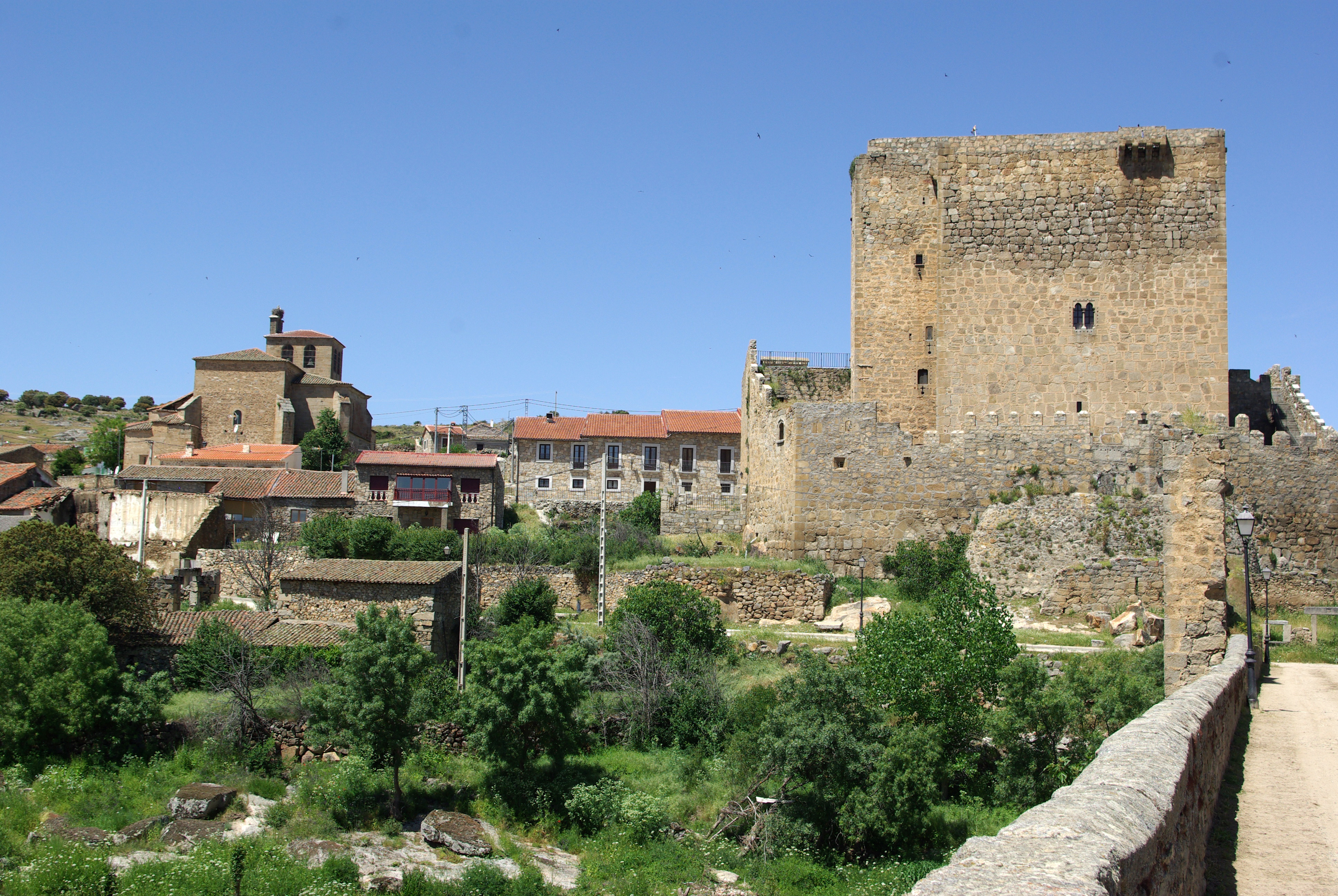 Nuestra Señora de la Asunción church and Dávila castle in Puente del Congosto (Salamanca, Spain)